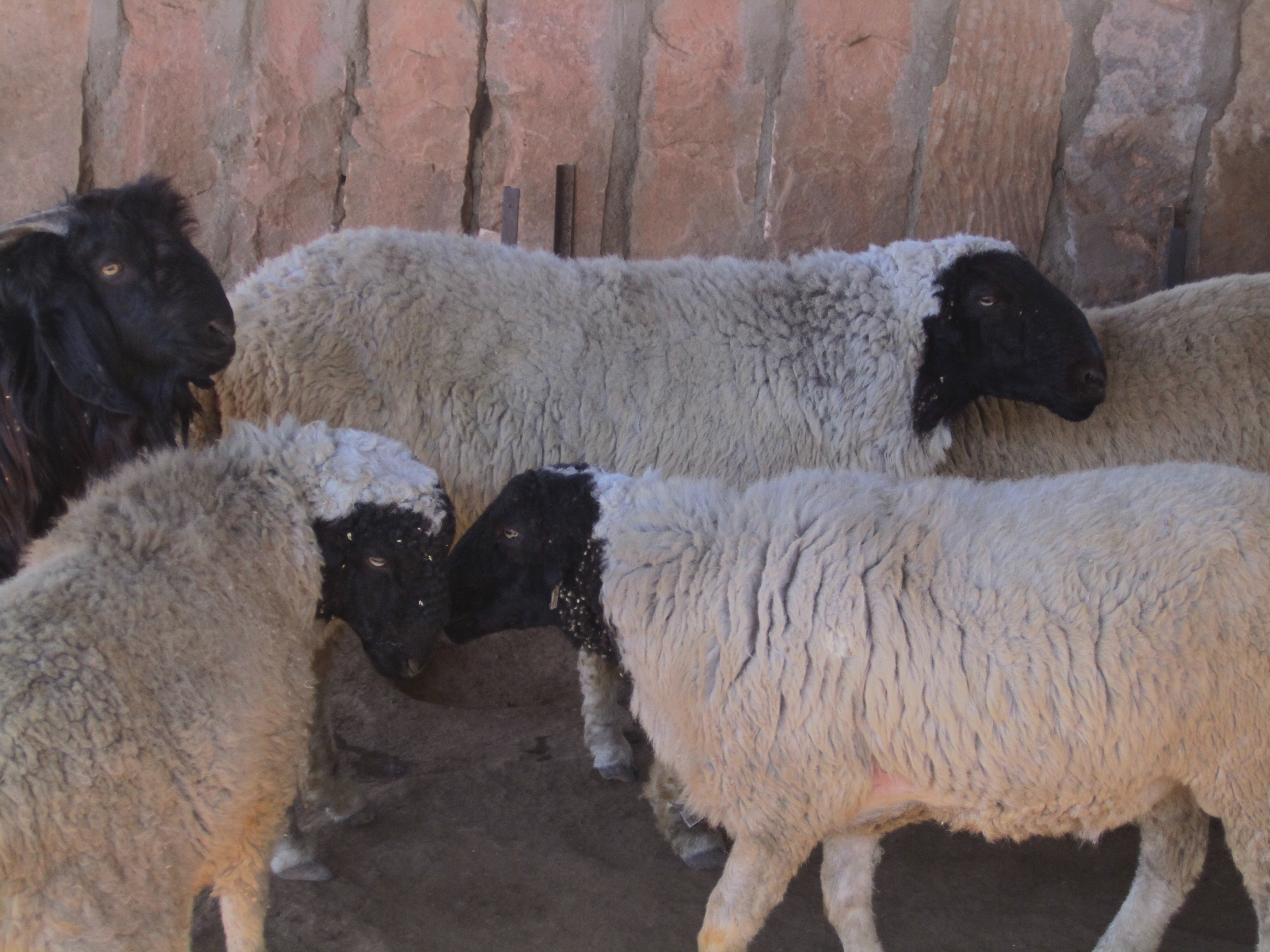 Marwari Rams